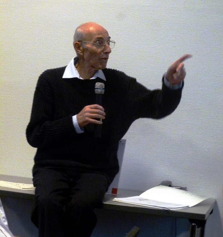 I took this photo myself at the Berlin symposium on Kushans in Dec. 2013.